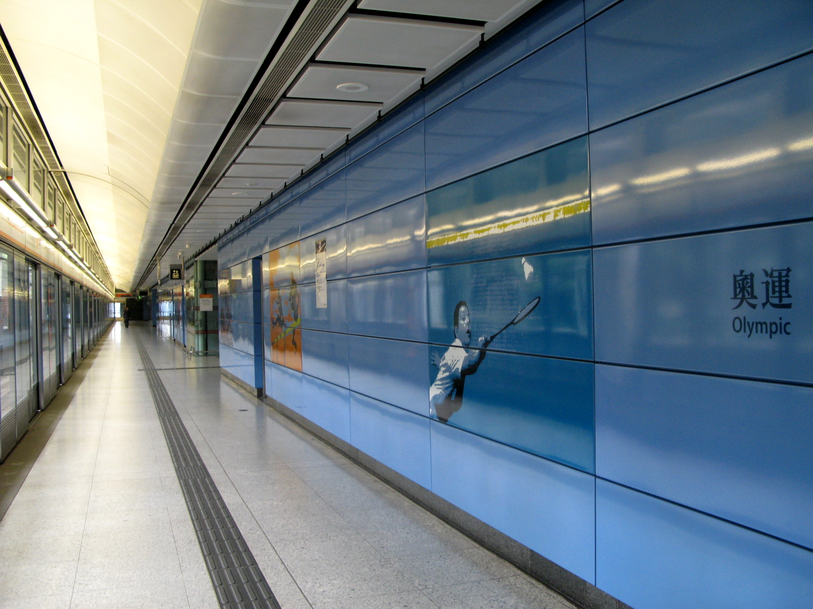 HK MTR Olympic Station Platform